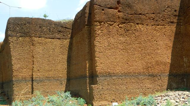 Bidar Predominantly has Laterite beneath it. Layers are clearly visible in picture.